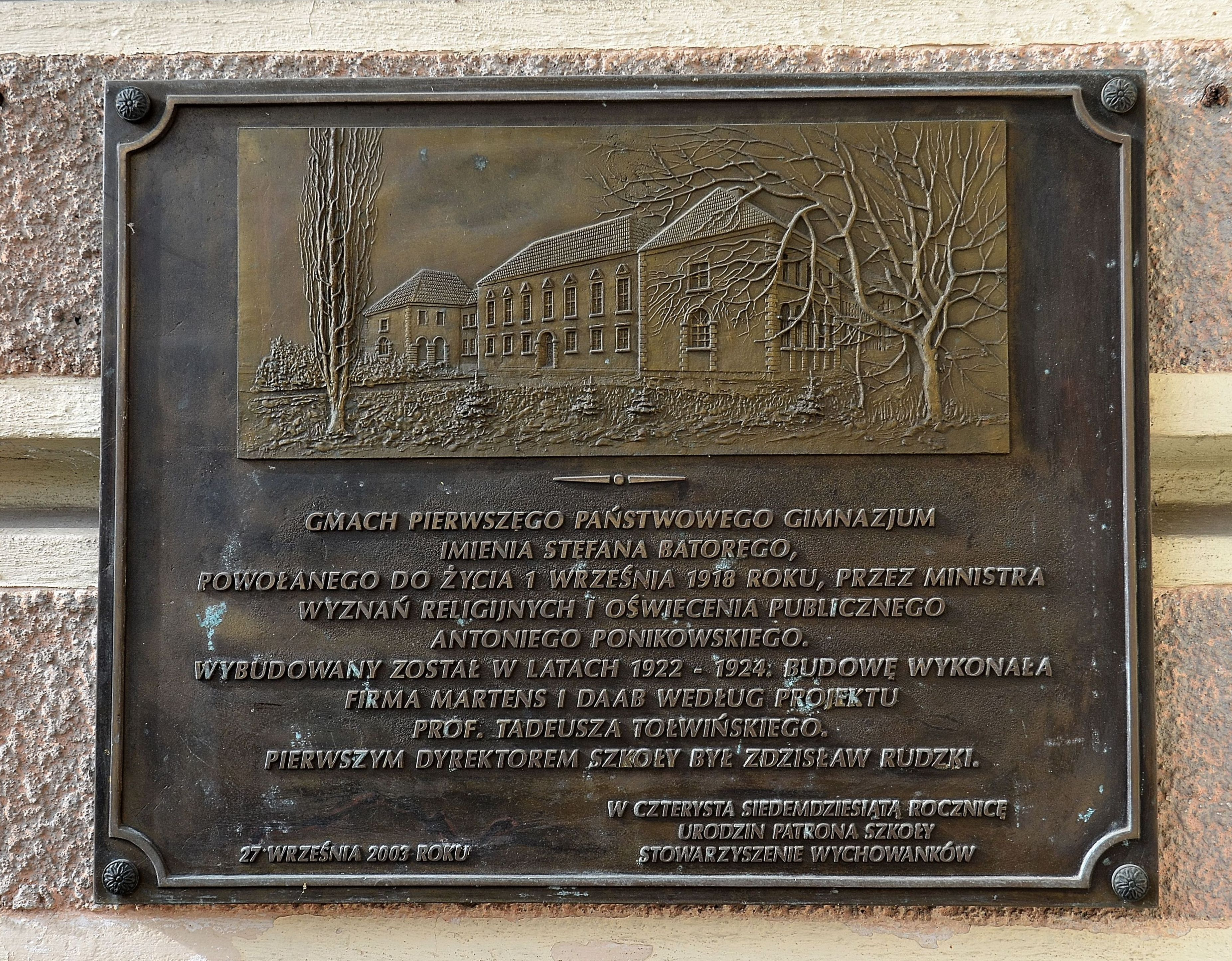 Commemorative plaque next to the entrance to the Stefan Batory High School in Warsaw